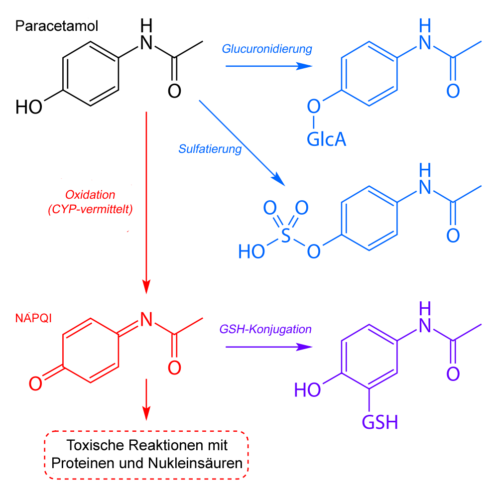 Simplified schematic of the key pathways of paracetamol metabolism in the human body. The first step in conversion of paracetamol to NAPQI has been omitted for clarity. Set in Myriad Pro. :Legend : Pathways to non-toxic metabolites : Pathway to toxic metabolites (CYP-mediated) : Detoxification pathway :Abbreviations :GlcA, glucuronic acid; GSH, glutathione; NAPQI, N-acetyl-p-benzoquinone imine.